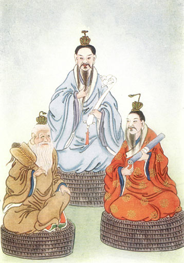 Three Pure Ones, the Taoist Triad.